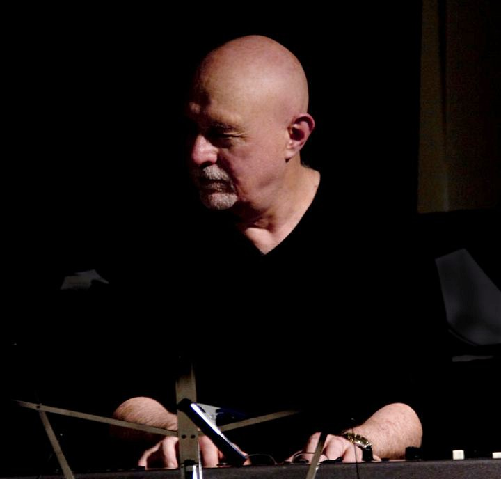 Pete Levin performing with the Lou Marini Quintet at Jack & Luna's - Stone Ridge, NY. November 27, 2010. (Photo: Samantha Levin)